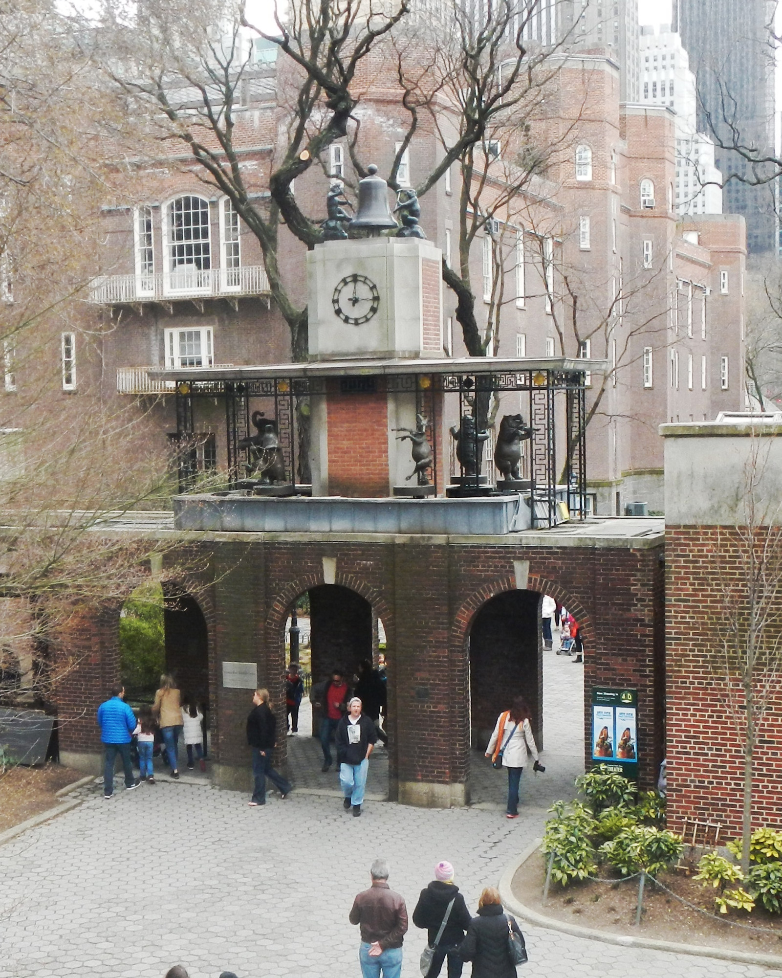 Looking south at clock tower on a cloudy afternoon.